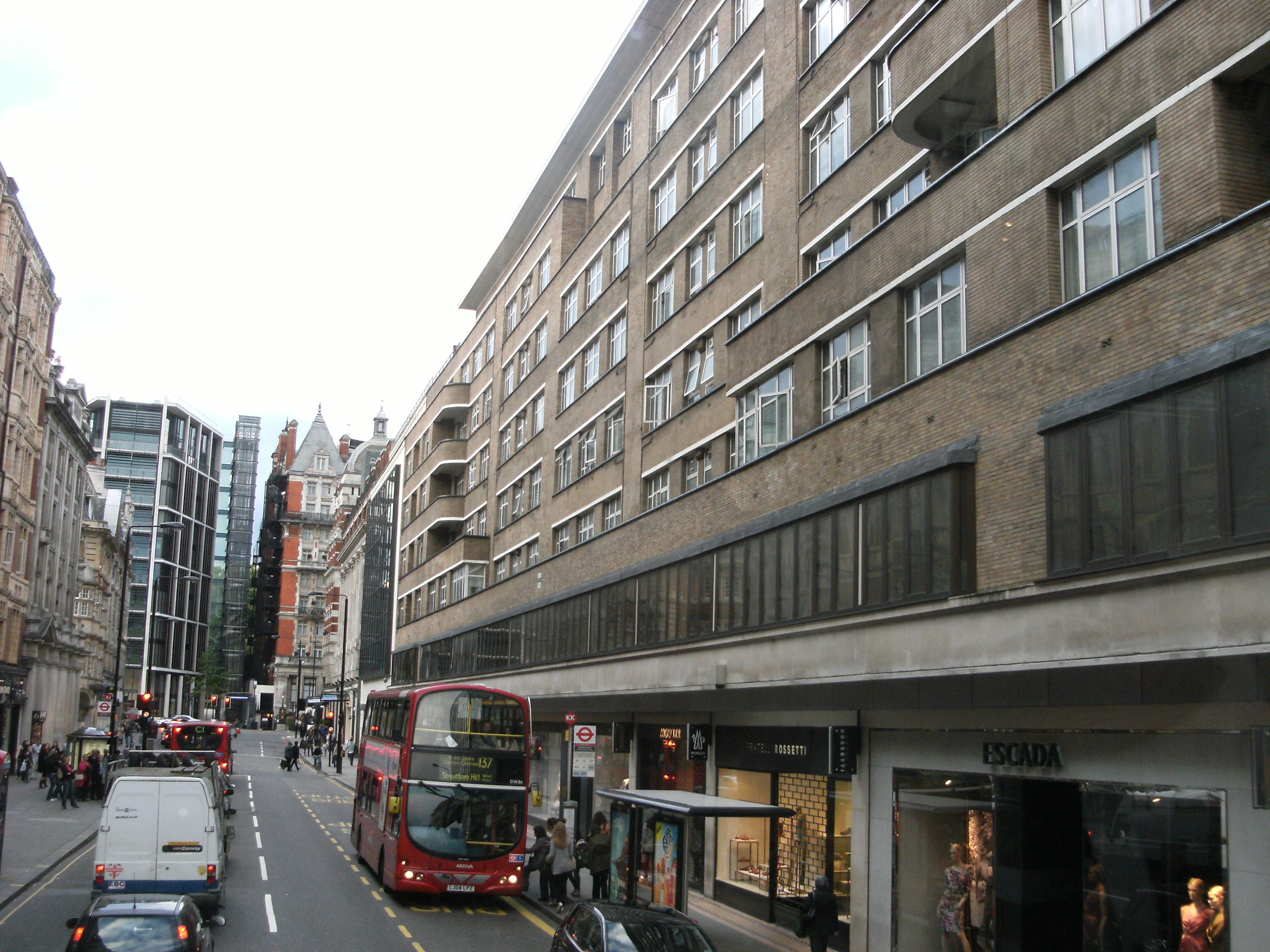 Sloane Street looking North 2011-06-04 in London.